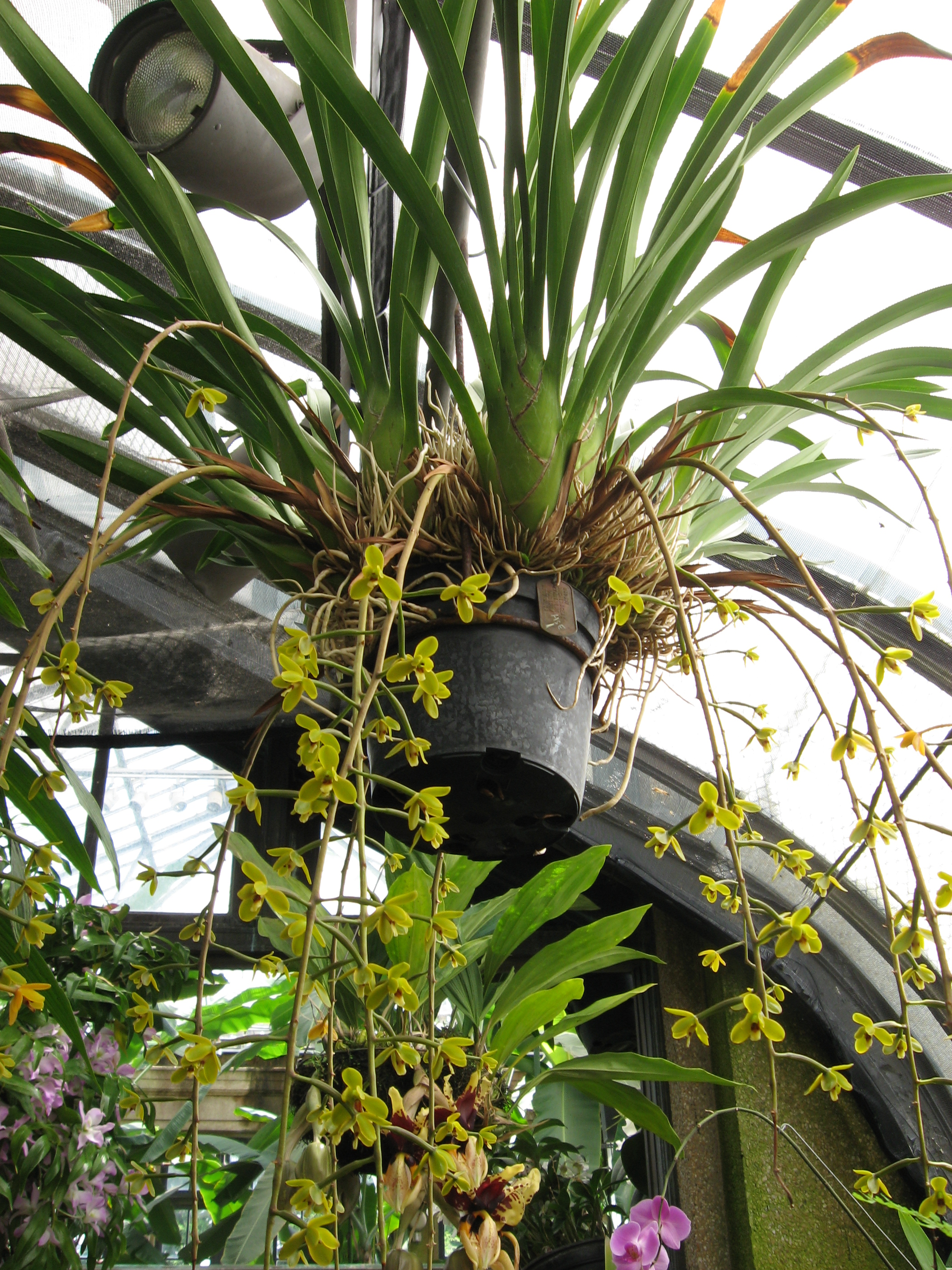 A picture of Cymbidium madidum.